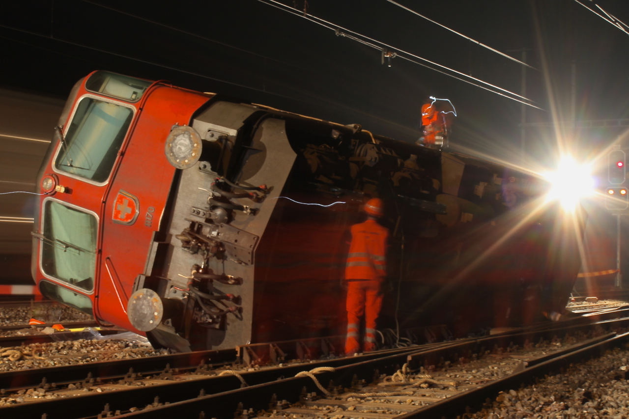 Re 4/4 II 11170 at Chavornay station.